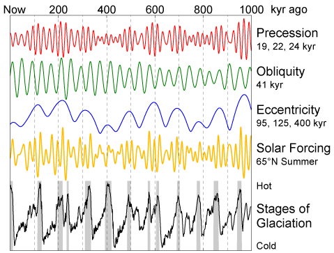 This figure shows the variations in Earth's orbit, the resulting changes in solar energy flux at high latitude, and the observed glacial cycles. According to Milankovitch Theory, the precession of the equinoxes and the apsides, variations in the tilt of the Earth's axis (obliquity) and changes in the eccentricity of the Earth's orbit are responsible for causing the observed 100 kyr cycle in ice ages by varying the amount of sunlight received by the Earth at different times and locations, particularly high northern latitude summer. These changes in the Earth's orbit are the predictable consequence of interactions between the Earth, its moon, and the other planets. The orbital data shown are from Quinn et al. (1991). Principal frequencies for each of the three kinds of variations are labeled. The solar forcing curve (aka "insolation") is derived from July 1st sunlight at 65 °N latitude according to Jonathan Levine's insolation calculator [1]. The glacial data are from Lisiecki and Raymo (2005) and gray bars indicate interglacial periods, defined here as deviations in the 5 kyr average of at least 0.8 standard deviations above the mean.